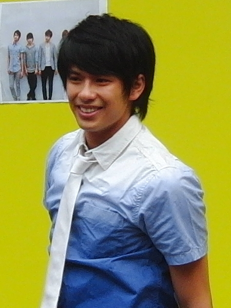 Morisaki Win, an actor and singer of Japan.